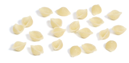 Conchigliette